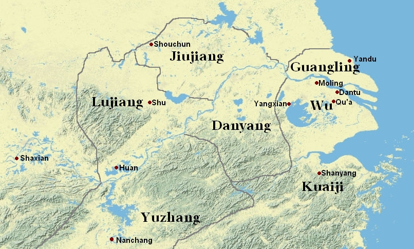 The Region around the Yangzi mouths during late 2nd century AD.